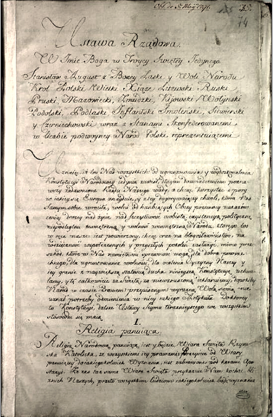 Manuscript of the Constitution of the 3rd May 1791